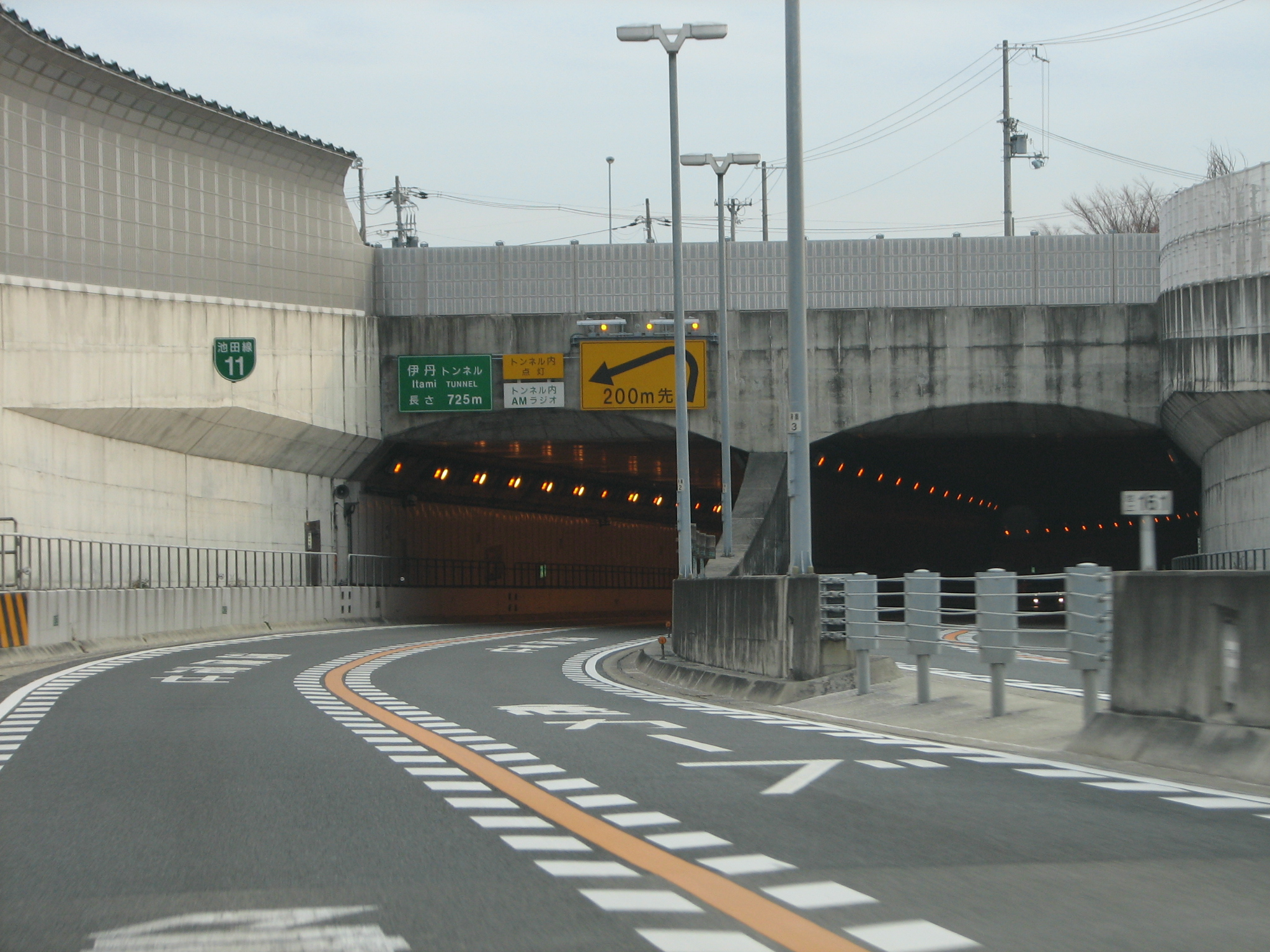 Hanshin Expressway Itami Tunnel